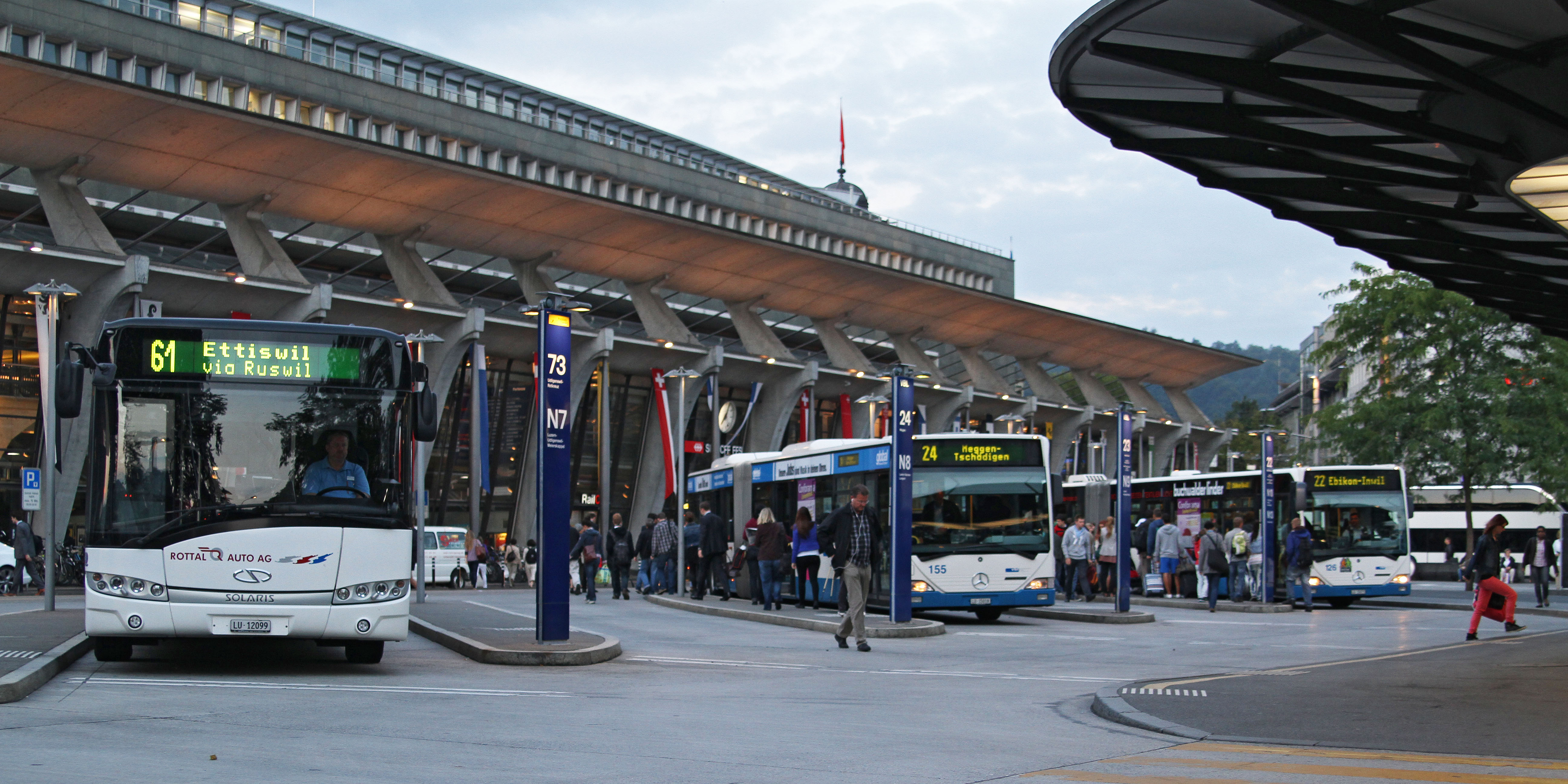 Some buses at the railway station in Lucerne waiting for their departure.